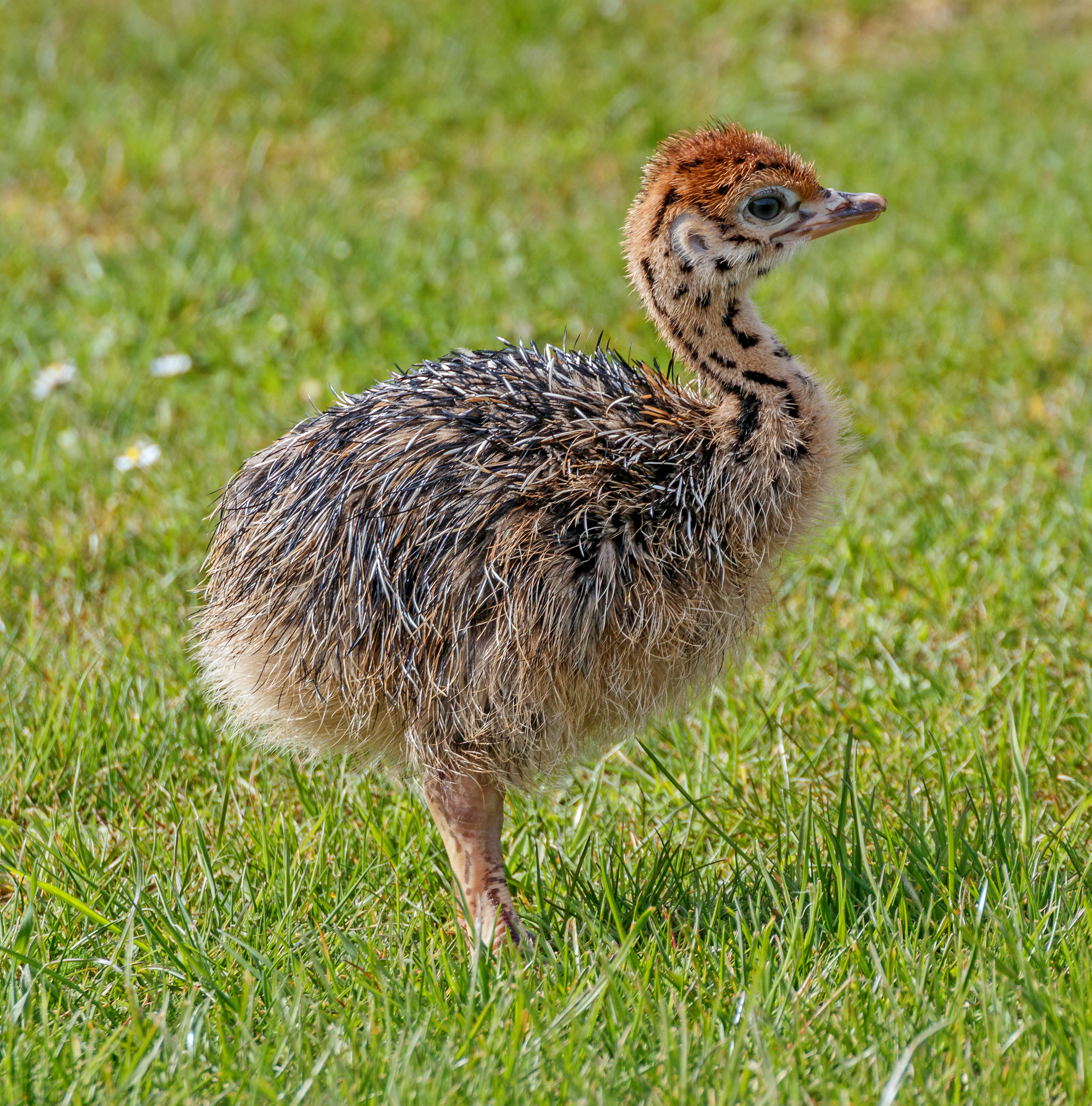 Struthio camelus Linnaeus, 1758, Common ostrich, juvenile; ostrich farm Mhou, Rülzheim, Germany.